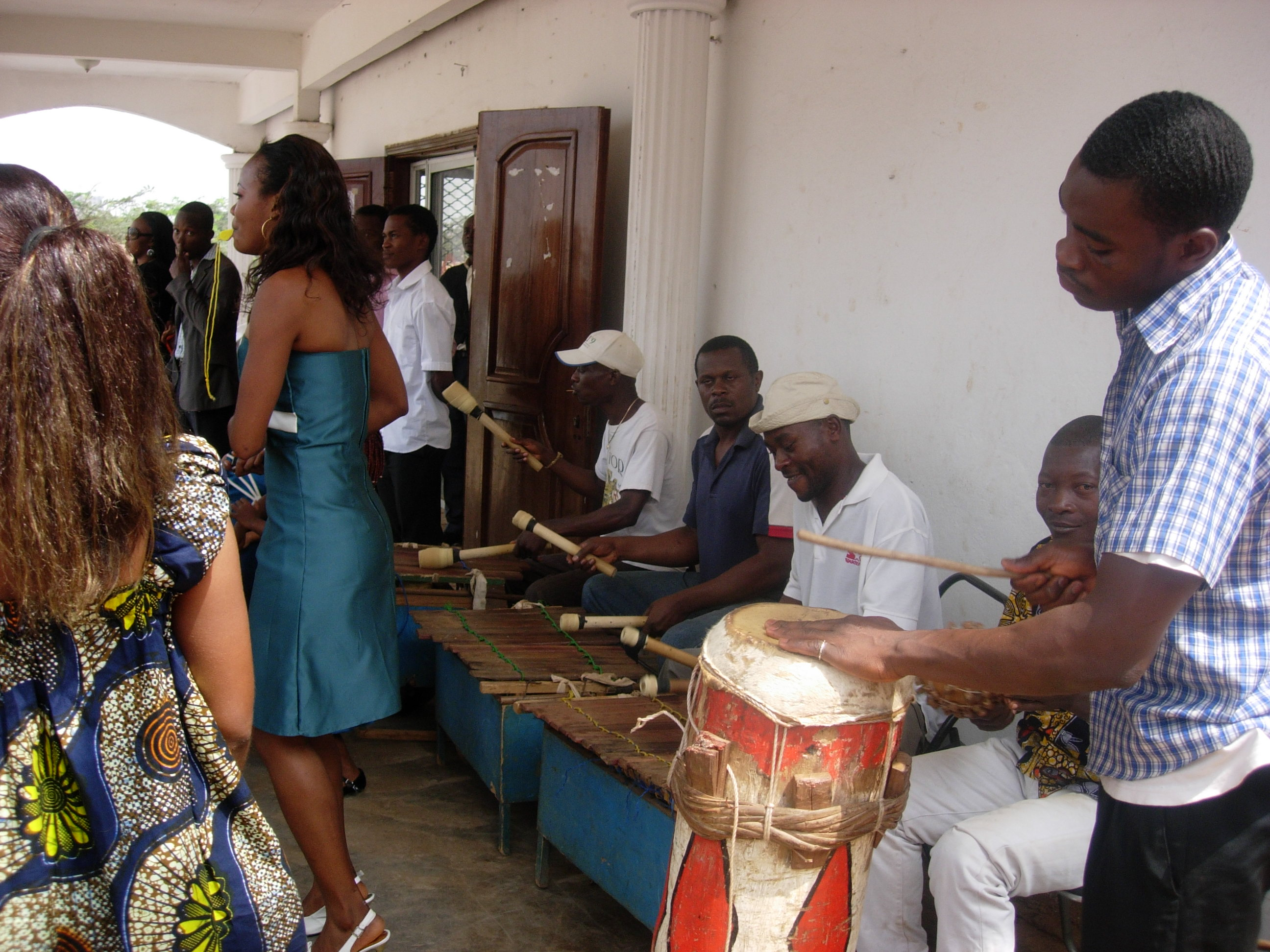 Orchestra playing before marriage This is an image of Cultural Fashion or Adornment from Cameroon